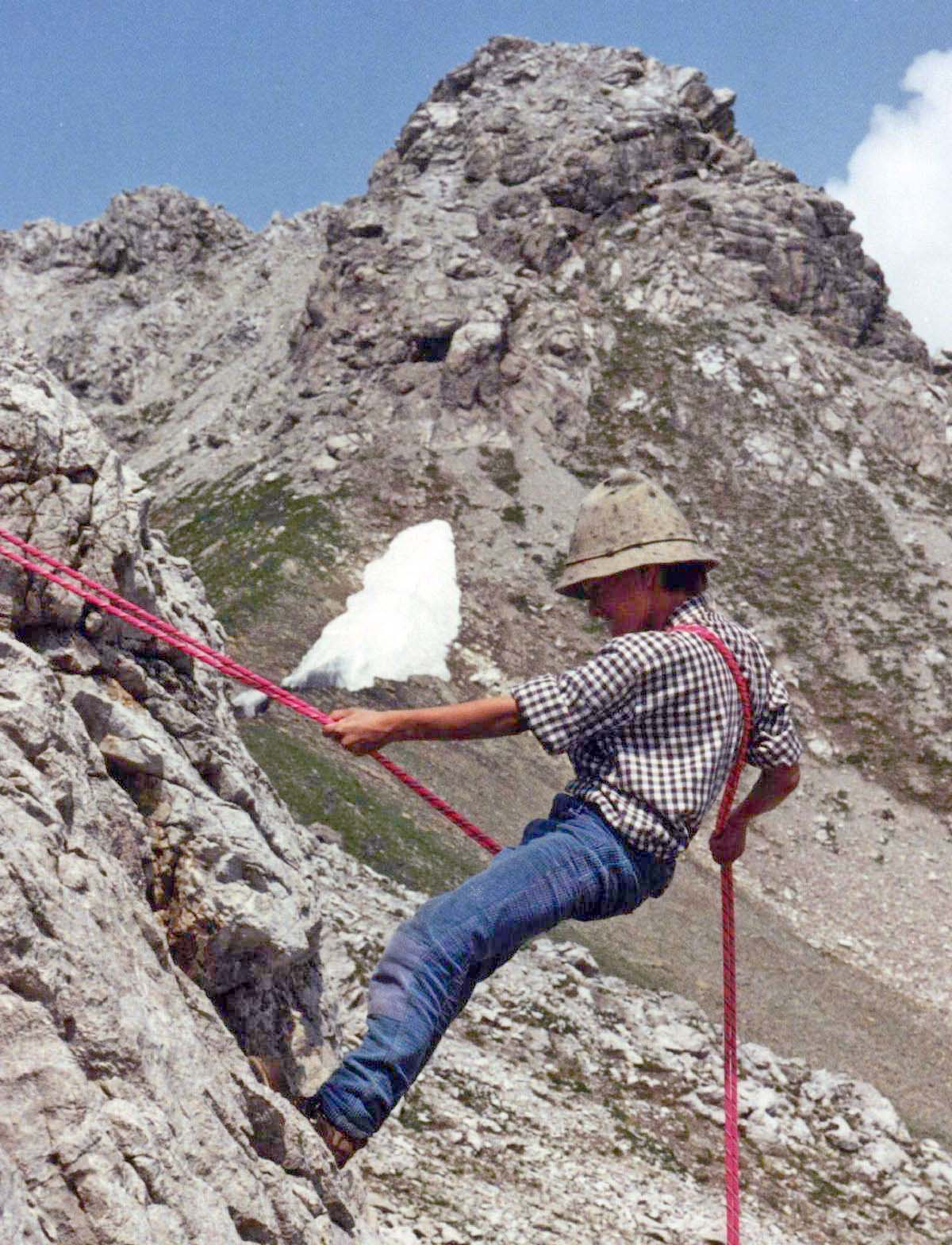 Abseiling according to Dülfer